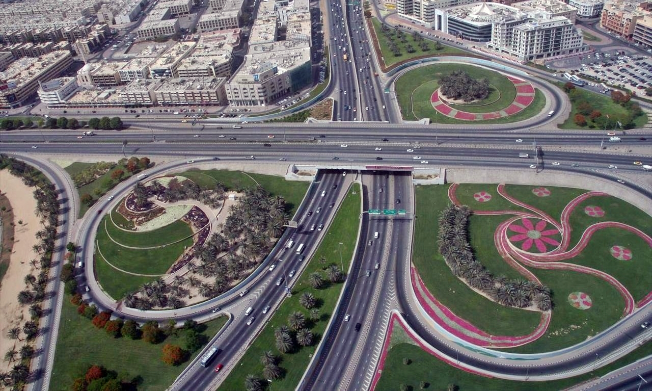 This is a photo showing an interchange in Dubai, United Arab Emirates as seen from the air on 1 May 2007. This interchange is where Al Quta'eyat Road and Zabeel Road meet adjacent to Zabeel Park (on the left in the picture) next to the neighborhoods of Zabeel (at the bottom), Karama (in the upper left), and Oud Metha (in the upper right).